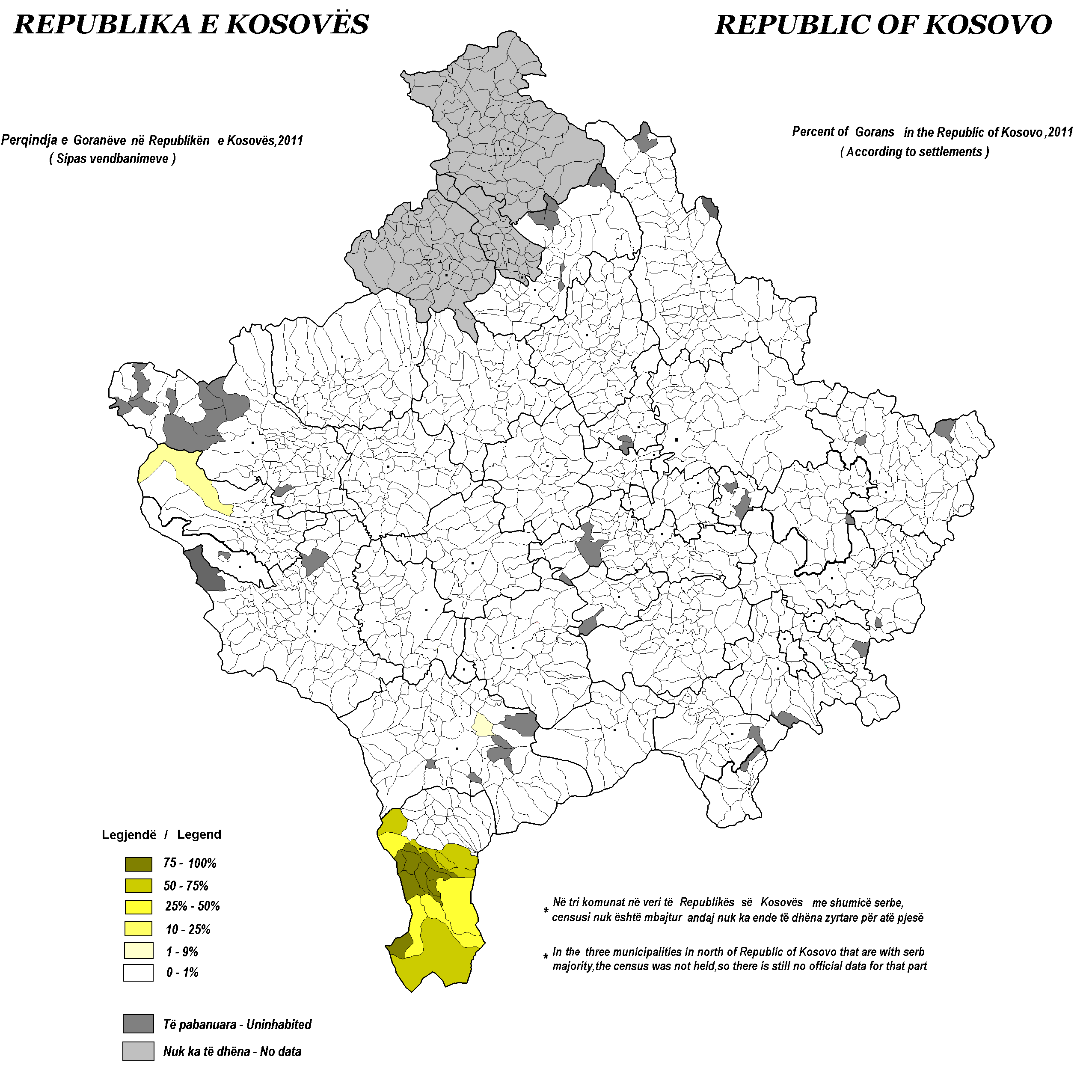 Gorani in Kosovo according to 2011 census